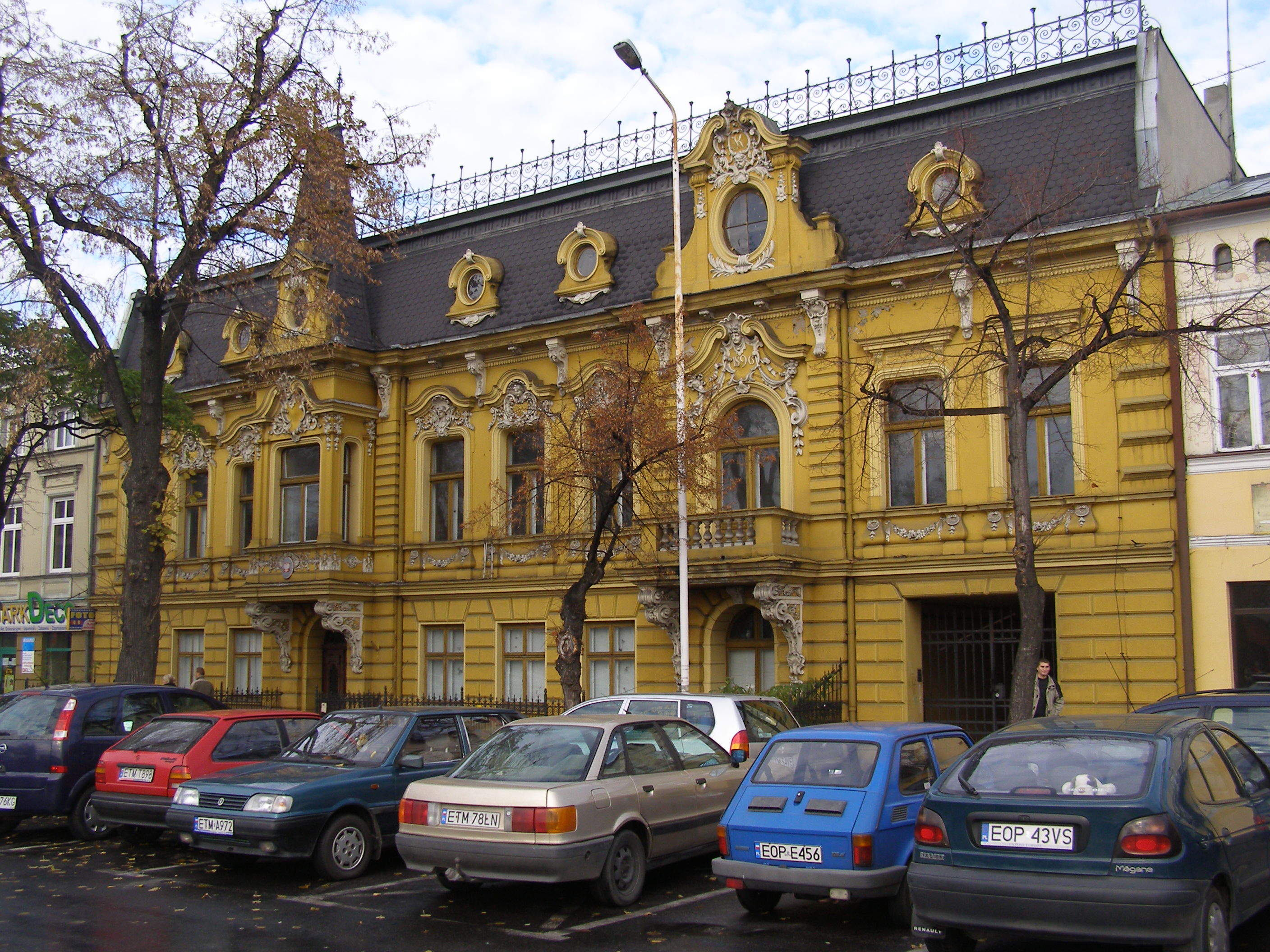 Knothe's Palace (ca. 1825-1830), rebuilt in 1896